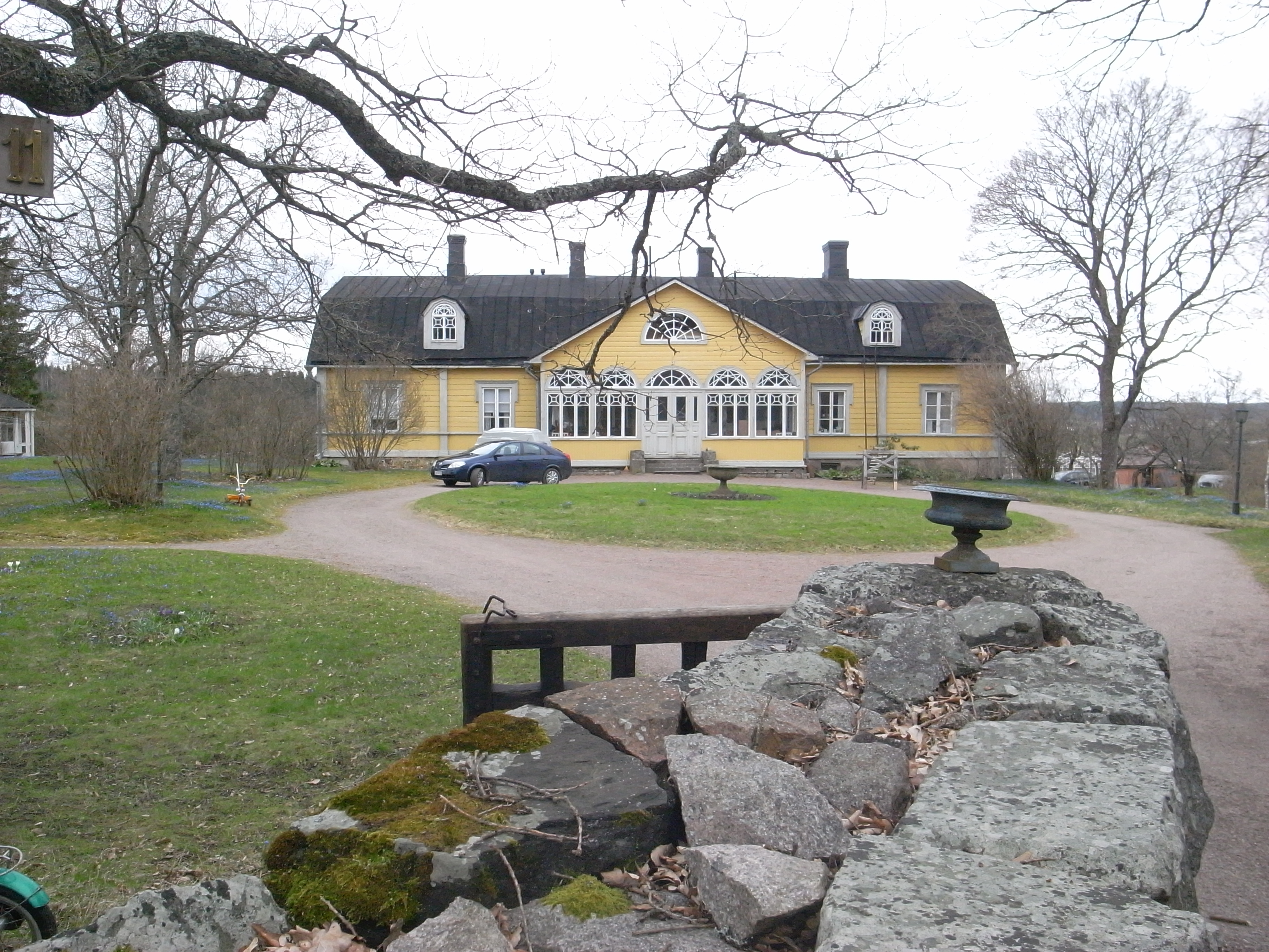 Jackarby Manor, dating at least to th 17th century. The current building is a well preserved example of building ideals 1i the 18th century when its current building was erected. Front view.